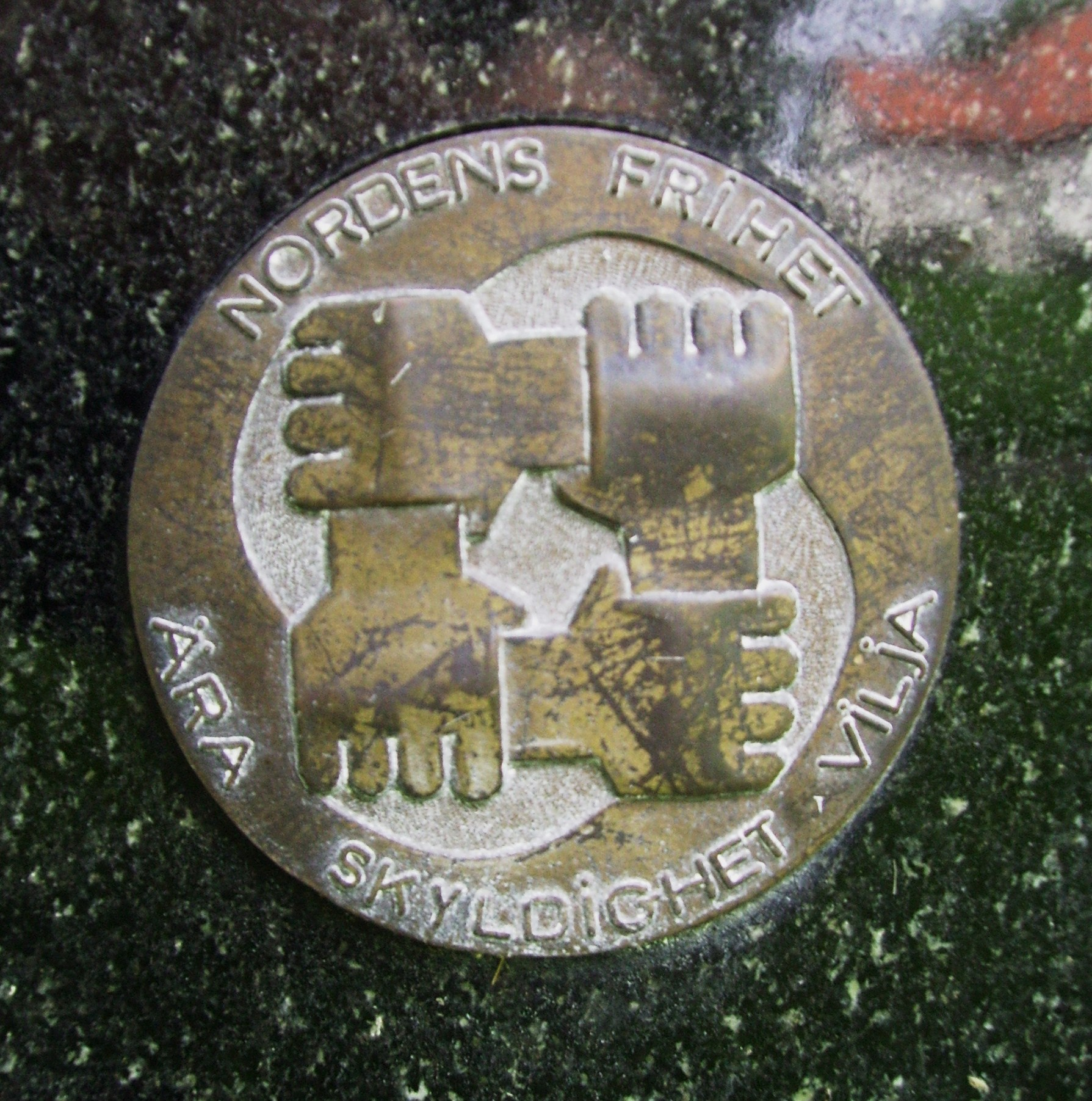 Picture of emblem at a grave: "Nordens Frihet".